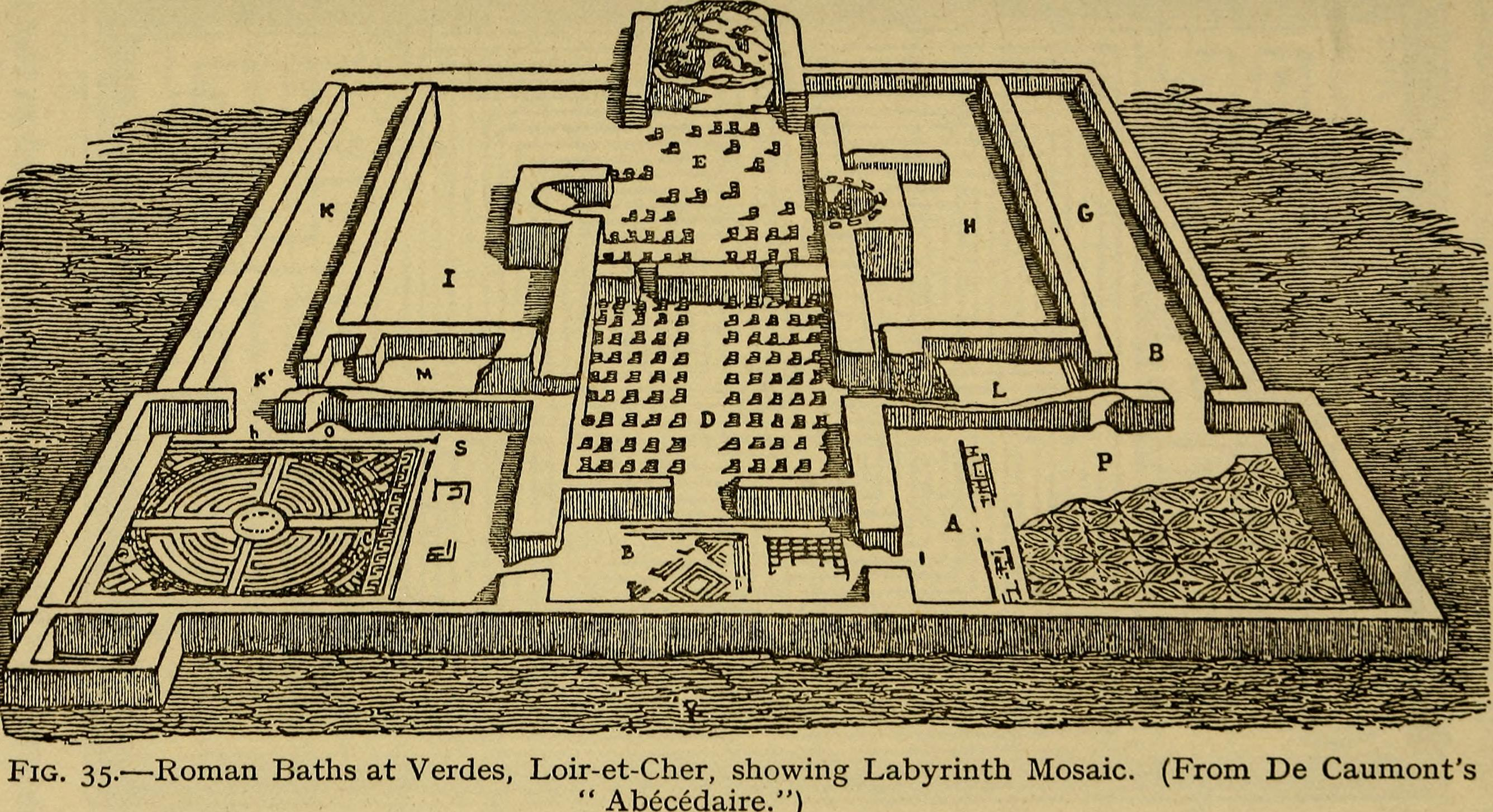 Title: Mazes and labyrinths; a general account of their history and developments Year: 1922 (1920s) Authors: Matthews, William Henry, 1882- Subjects: Labyrinths Publisher: London, New York, etc. Longmans, Green Text Appearing Before Image: Fig. 36. Mosaic at Cormerod, Switzerland.(Mitt. Ant. Ges. Zurich, XVI.) mentioned above, the central space being occupied bythe Minotaur^ who is shown in an attitude of defeat. Text Appearing After Image: Sailing towards the labyrinth was a boat containing figures which presumably represented Theseus and his e 49 companions. The design was accompanied by the wordshic inclusus vitam perdit. Another well-preserved mosaic of this character was